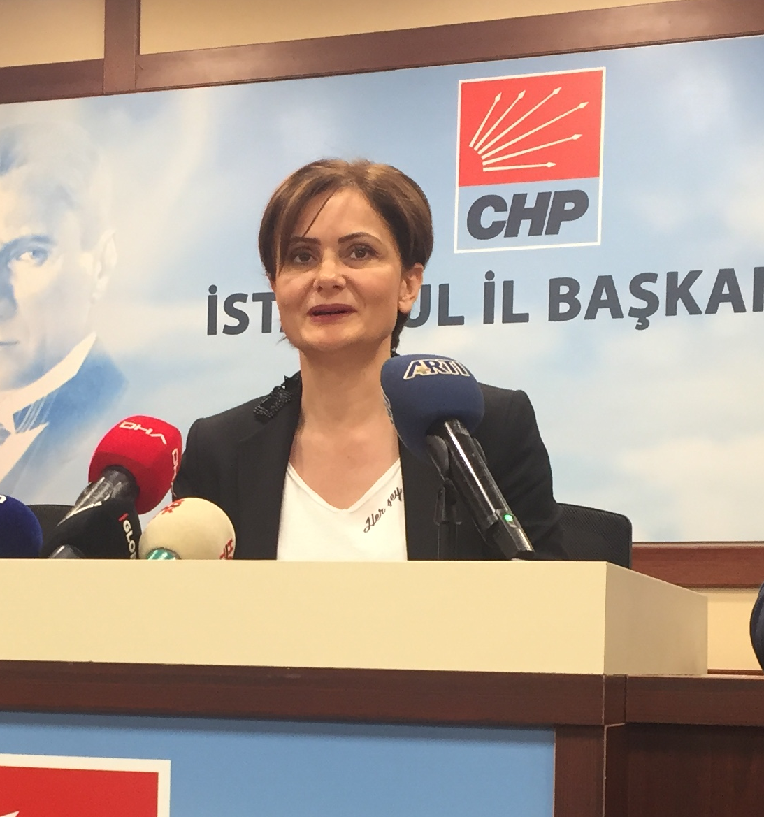 Canan Kaftancıoğlu at CHP meeting, crop from Canan Kaftancıoğlu 20190517.jpg